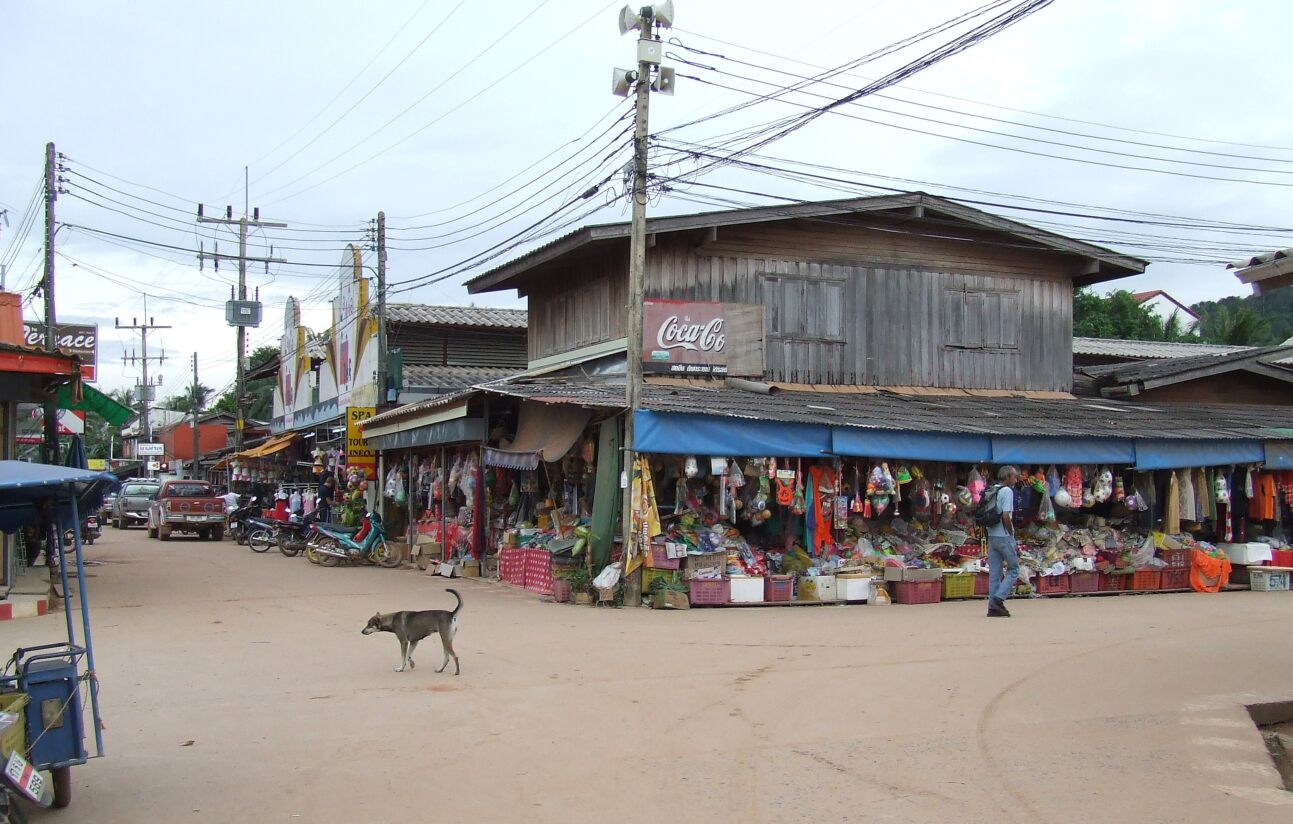 The main corner in Ban Saladan, Koh Lanta, Thailand Photo taken 2006 by User:Neitram